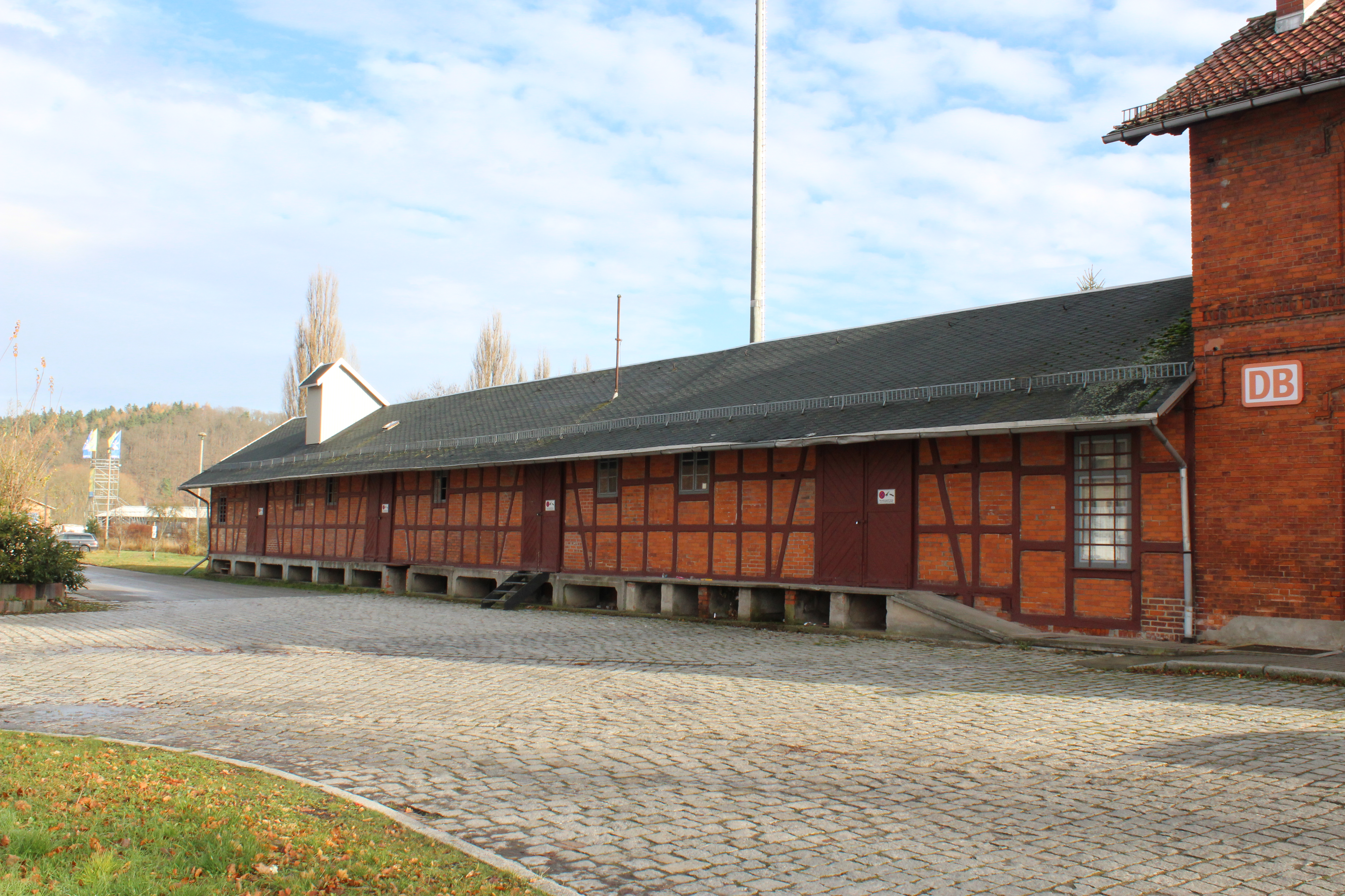 train station Kranichfeld, goods shed